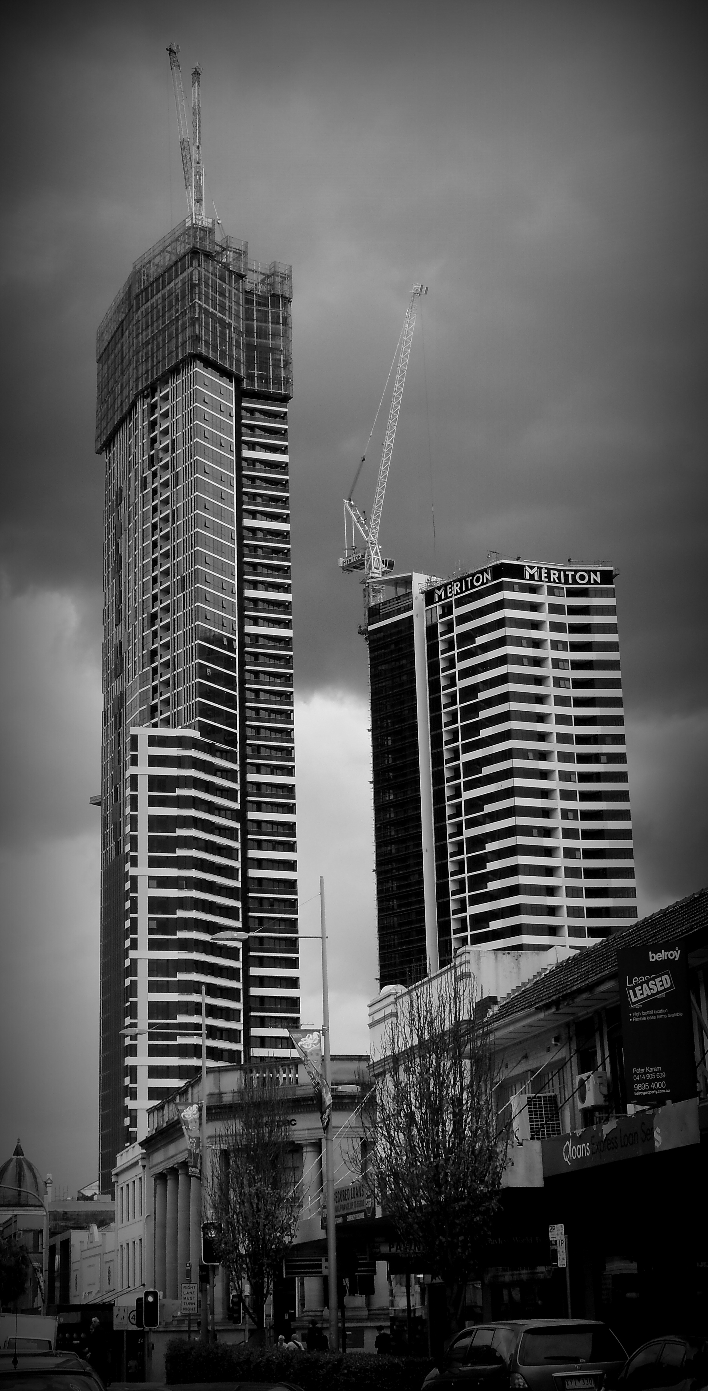 Meriton project, Church St, Parramatta, Sydney